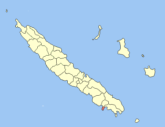 Created map myself (map of Nouméa).